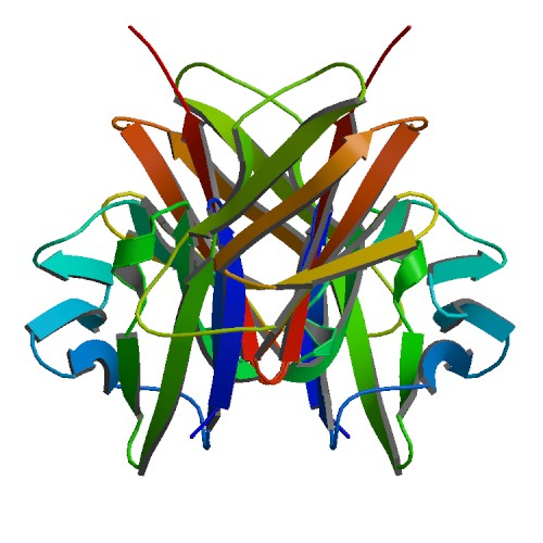 Crystallographic structure of the V-set and C2 domains of human CD4